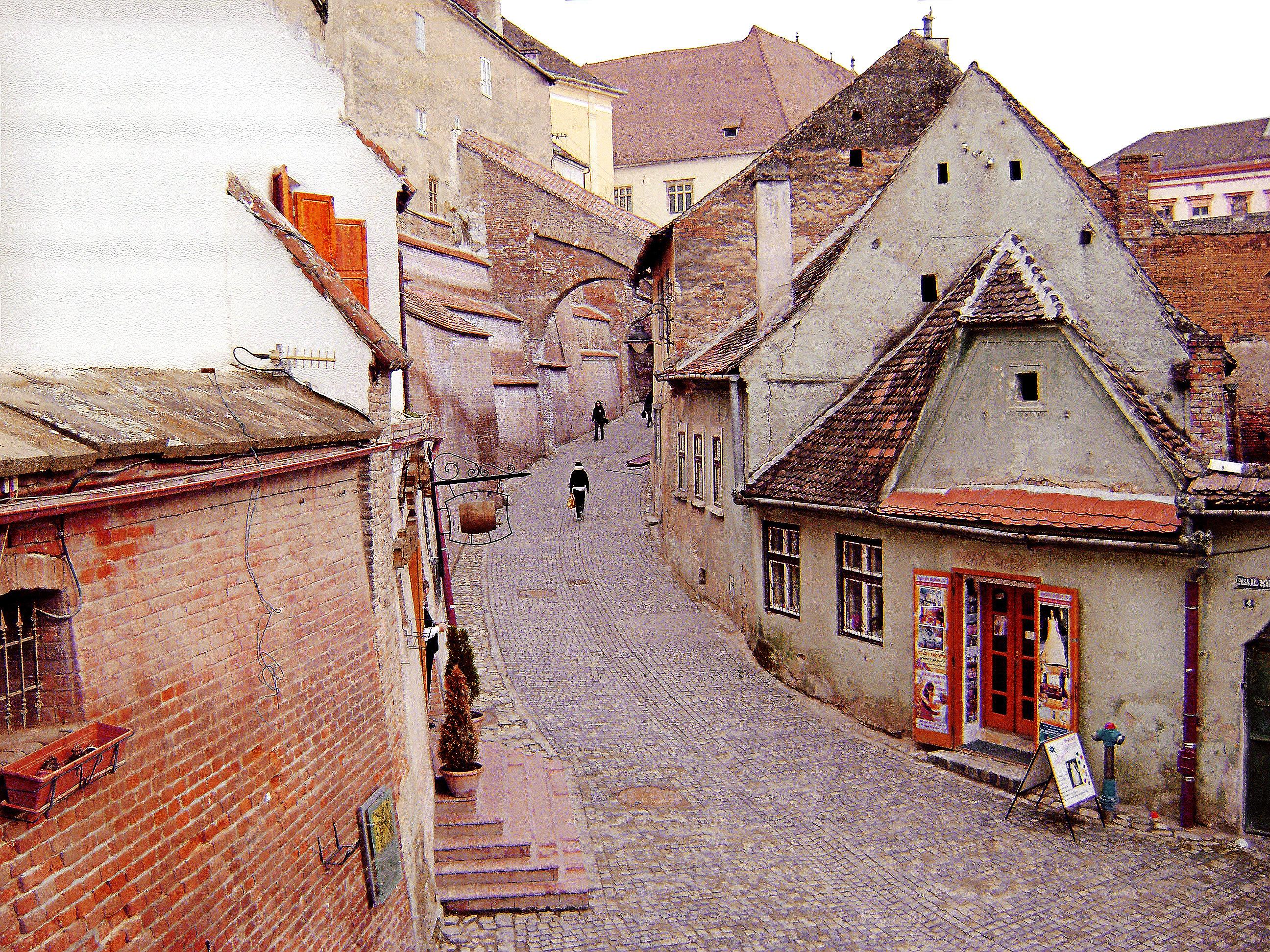 Lower Town street in Sibiu, Romania